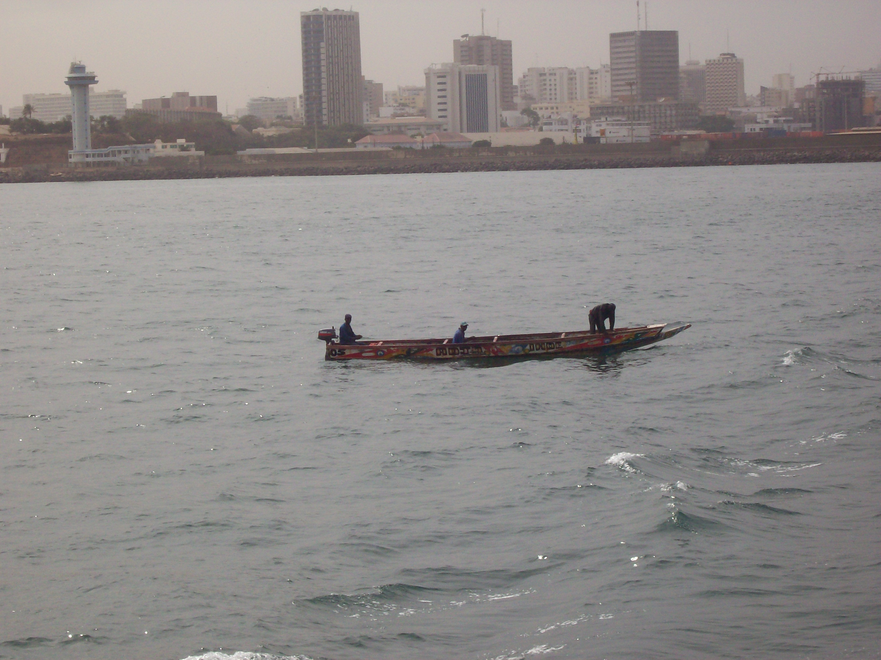 Three men in a boat, Dakar